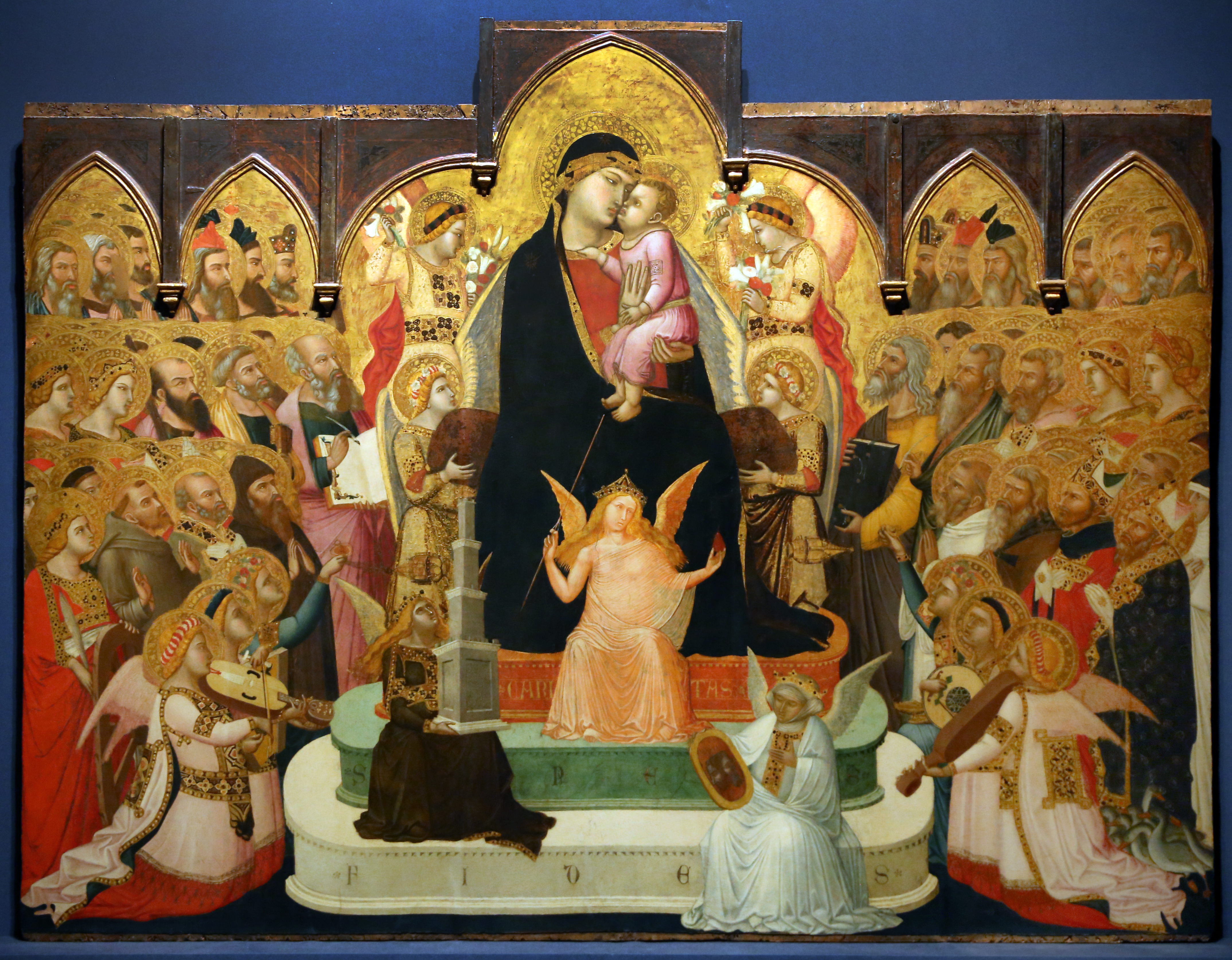 Ambrogio Lorenzetti (2017 exhibition in Siena)